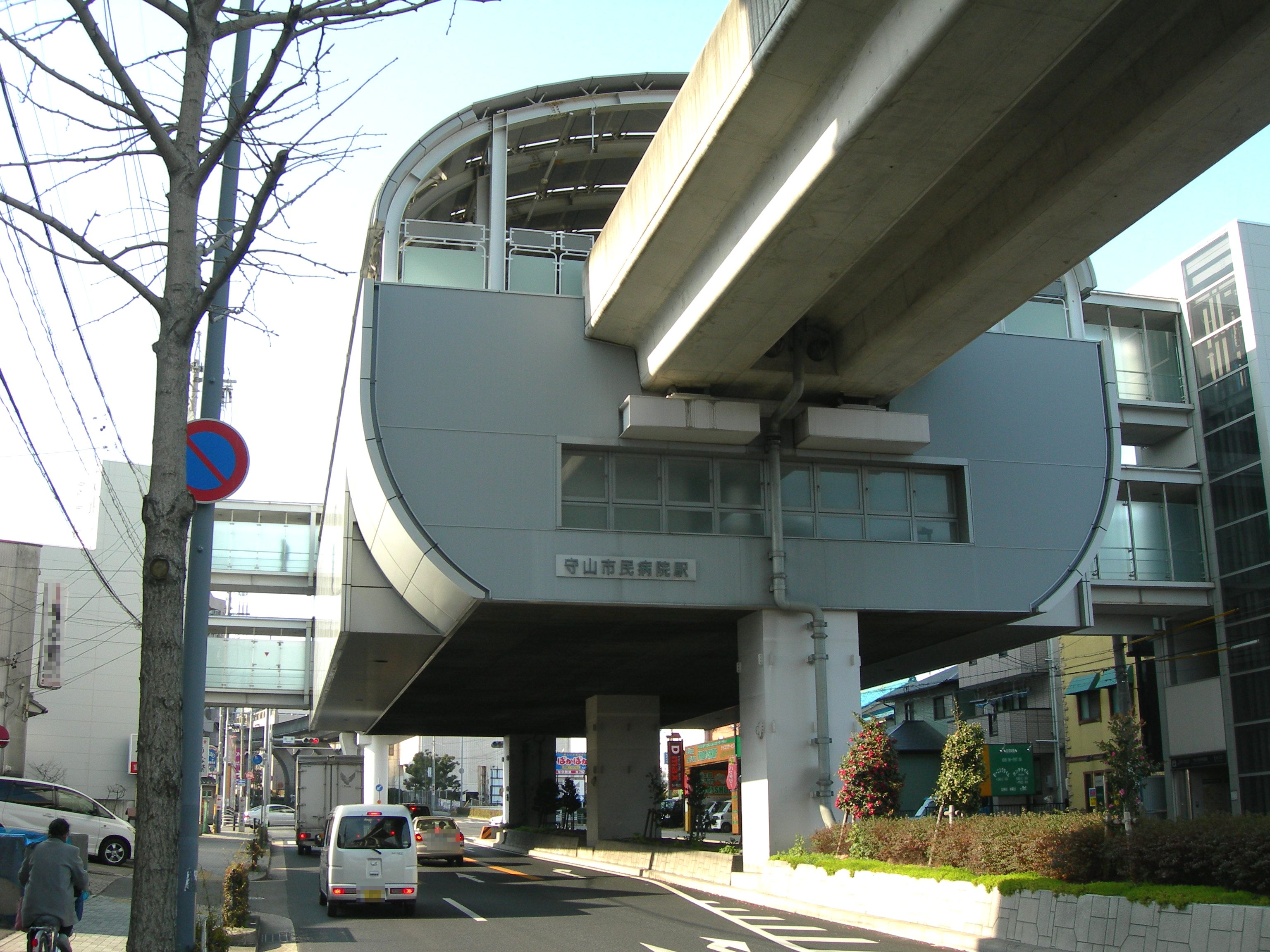 Nagoya Guideway Bus Moriyama Shimin-Byoin Station (now Kanaya Station)